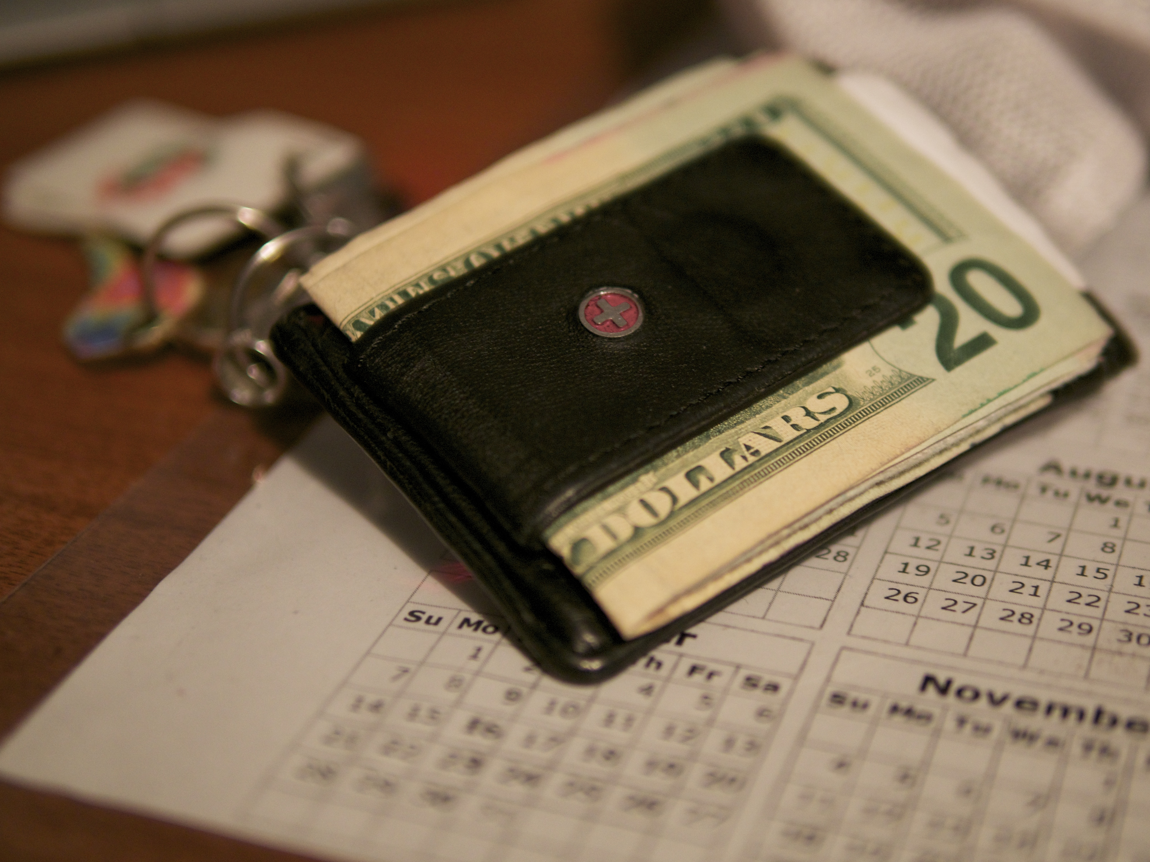 This is a day where I really didn't get any worthwhile shots and when I got home late in the evening, I had a new toy that had been delivered... the Panasonic 25mm. So I took a test shot at my desk. 30/100 taken October 23, 2012 Olympus OM-D E-M5 with Panasonic 25mm 1.4